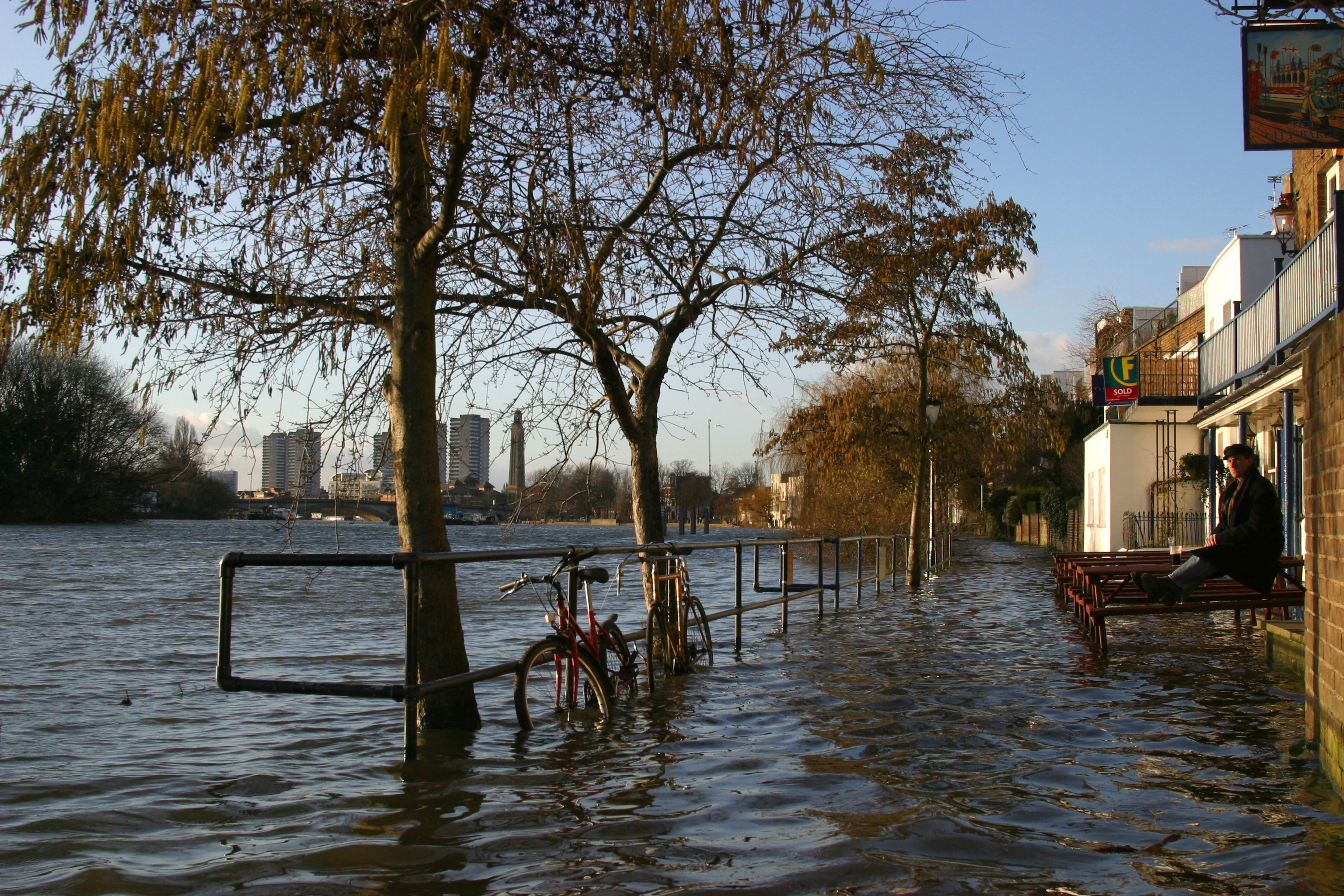 Image of River Thames at the City Barge pub, Strand-on-the-Green, showing the towpath flooded on February 8, 2004, following the full moon on February 6th.